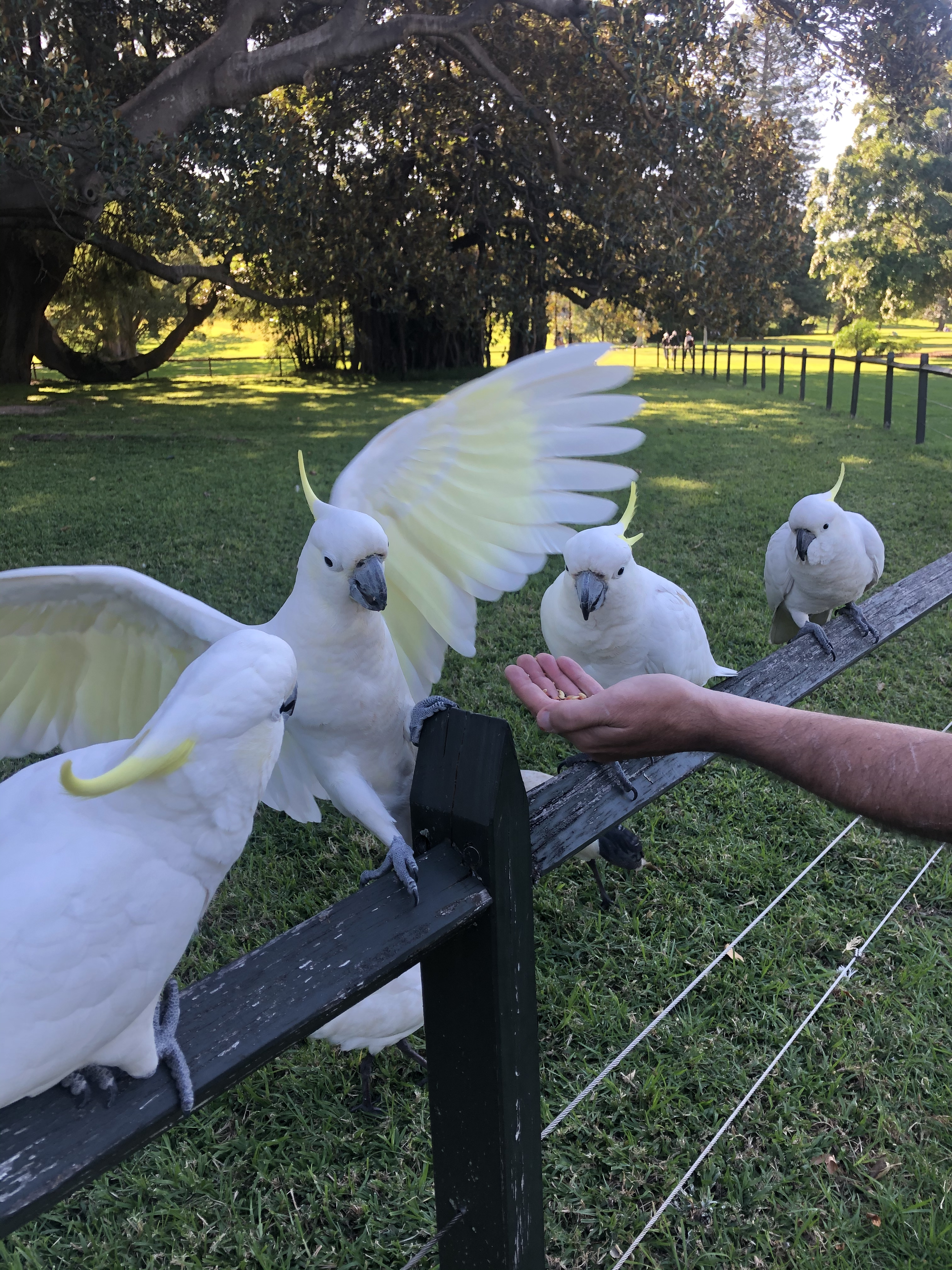 The photo was taken in Sydney royal botanic gardens, with an I phone 8 plus. These yellow crested cockatoos were being fed by a man who daily visits the place; the creatures recognised the man and immediately approached him and ate kindly from his hand one at a time.